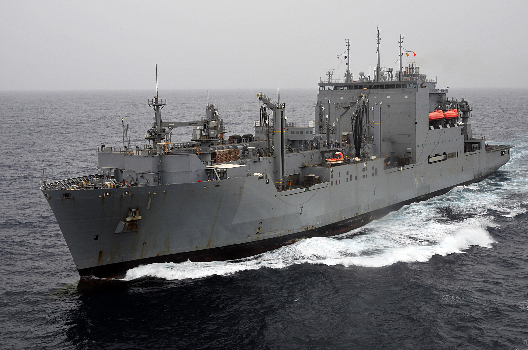 ARABIAN SEA (Aug. 31, 2010) The Military Sealift Command dry cargo and ammunition ship USNS Lewis and Clark (T-AKE 1) is underway in the Arabian Sea. Lewis and Clark is replenishing elements of the Peleliu Amphibious Ready Group, which are providing disaster relief to flooded regions in Pakistan. (U.S. Navy photo by Mass Communication Specialist 2nd Class Edwardo Proano/Released)